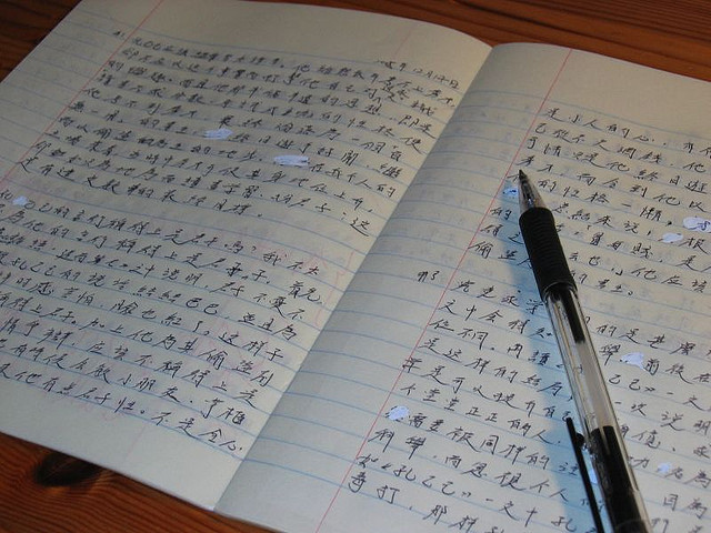 One of my Chinese Language homework.